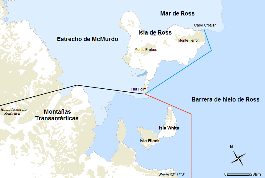 Map of the Discovery Expedition field of work, including three routes of explorations undertaken by members of the British National Antarctic Expedition of 1901-04 led by Robert Falcon Scott. RED line; Southern journey to Furthest South, November 1902 to February 1903. BLACK line; Western journey through Western Mountains to Polar Plateau, October–December 1903. BLUE line; Journeys to message point and Emperor Penguin colony at Cape Crozier, October 1902, September and October 1903.